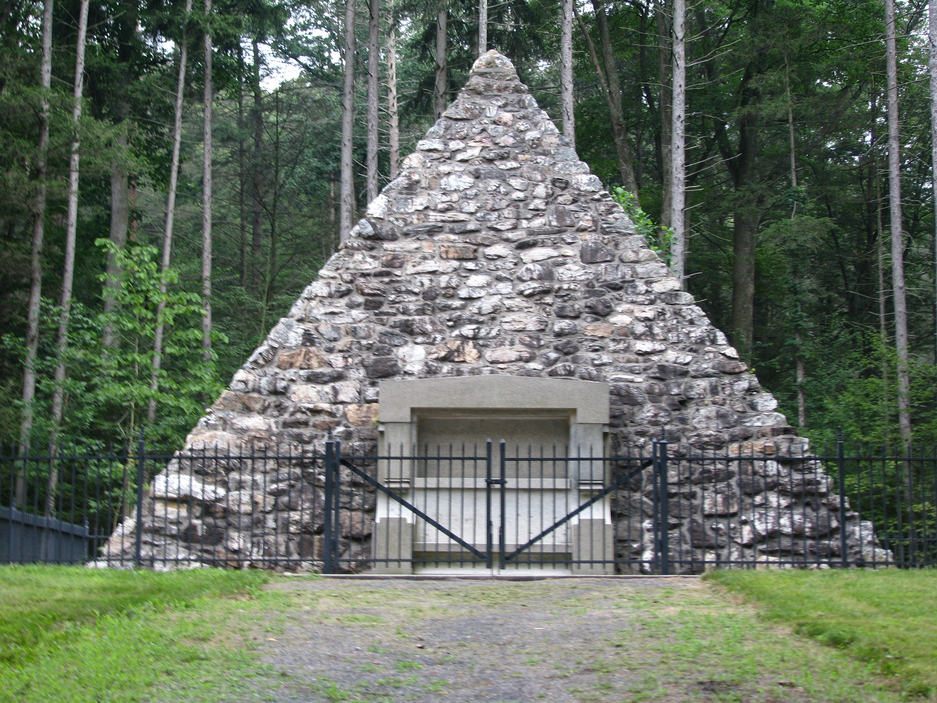 Stone pyramid marking the site of the birthplace of President James Buchanan in Buchanan's Birthplace State Park in Franklin County, Pennsylvania, USA.